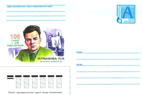 The envelope of the Belarusian mail which has been let out in 2002 to the 100 anniversary of the Belarusian artist Pavel Gavrilenko